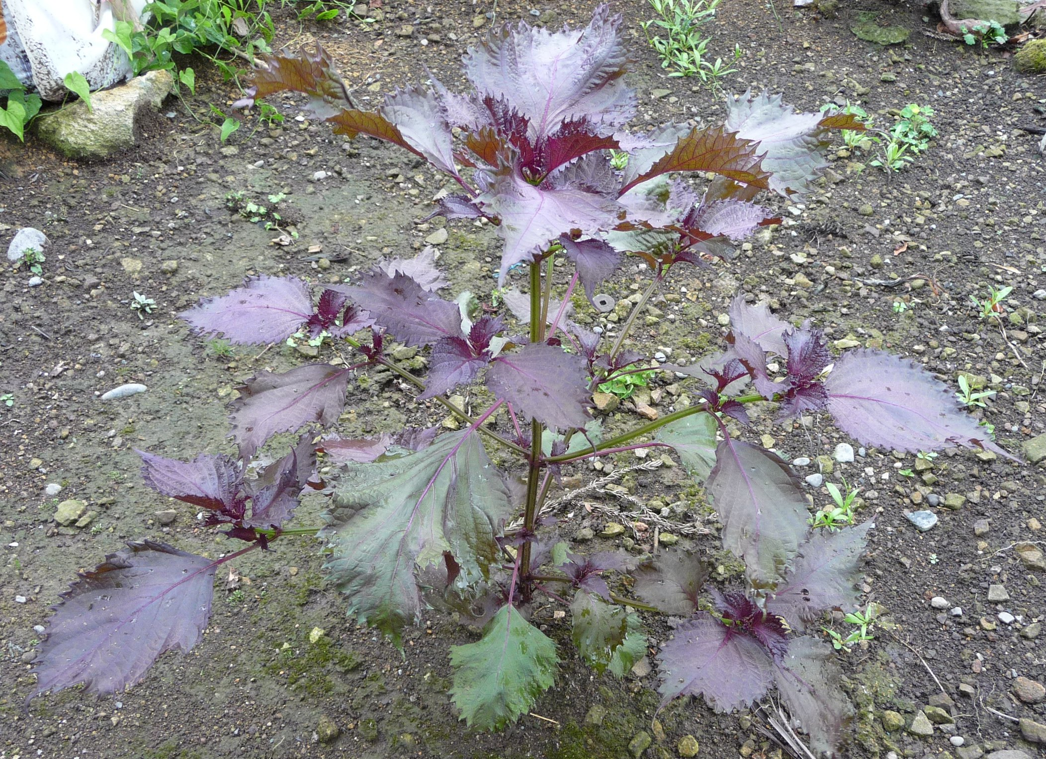 Red Shiso - Perilla frutescens var. crispa f. purpurea